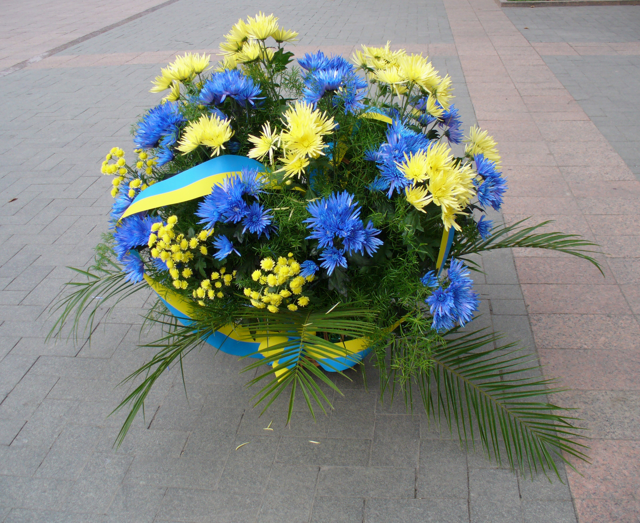 Bouquet with ribbon colors of the National flag of Ukraine.